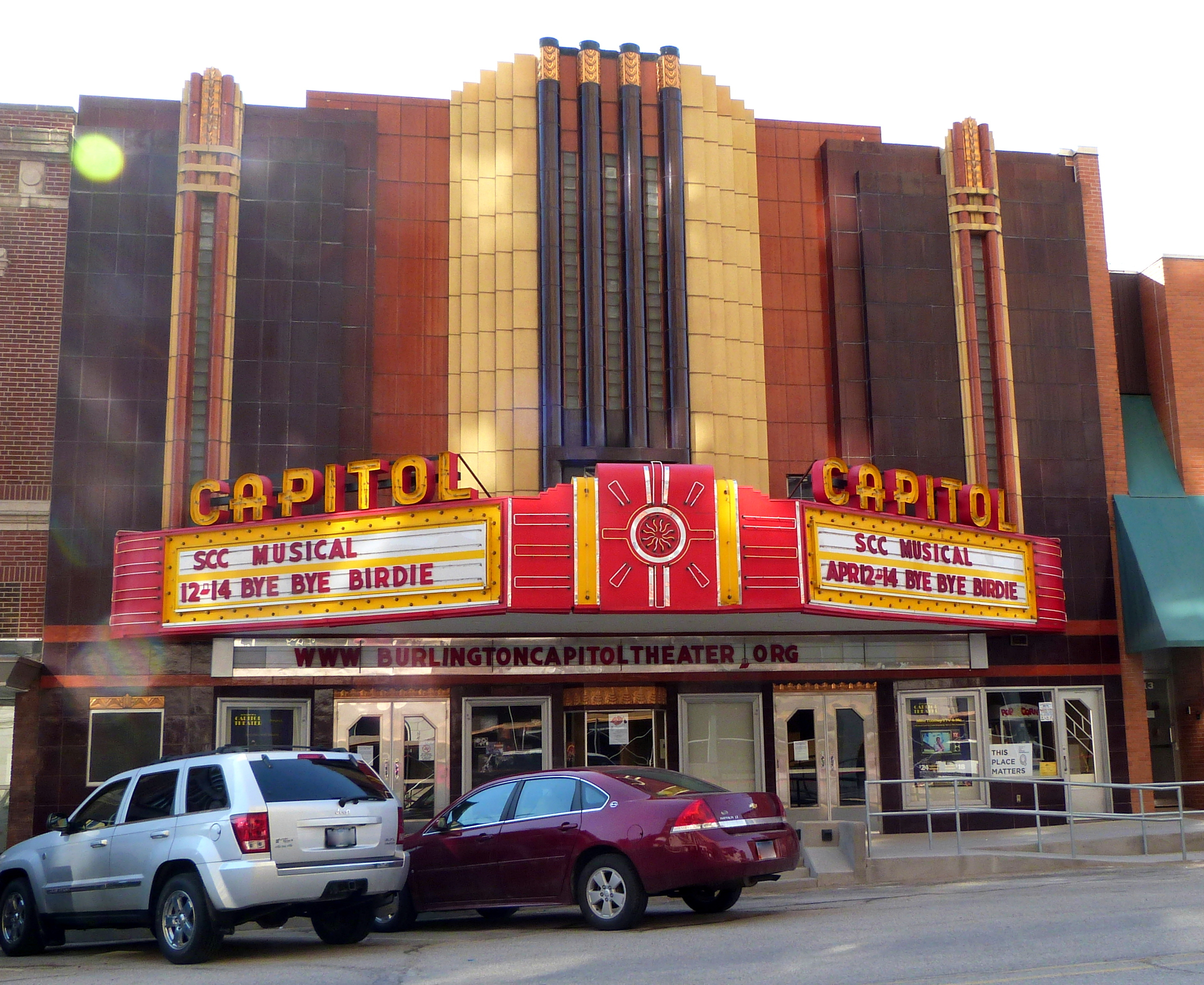 The historic Capitol Theater, located at 211 North 3rd Street in Burlington, Iowa, United States, is listed on the US National Register of Historic Places.